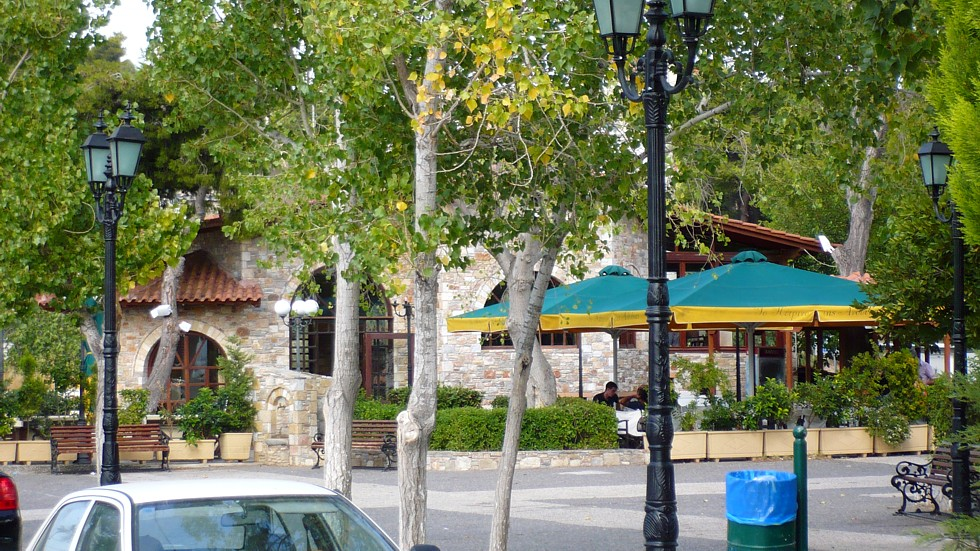 The picture depicts the central square of Anthoussa.